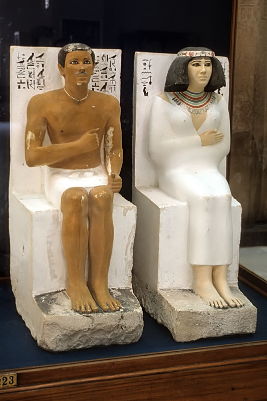 Statues of Rahotep and Nofret (CG 3, CG 4), Mastaba 6 at Meidum, Egyptian Museum of Cairo, Egypt